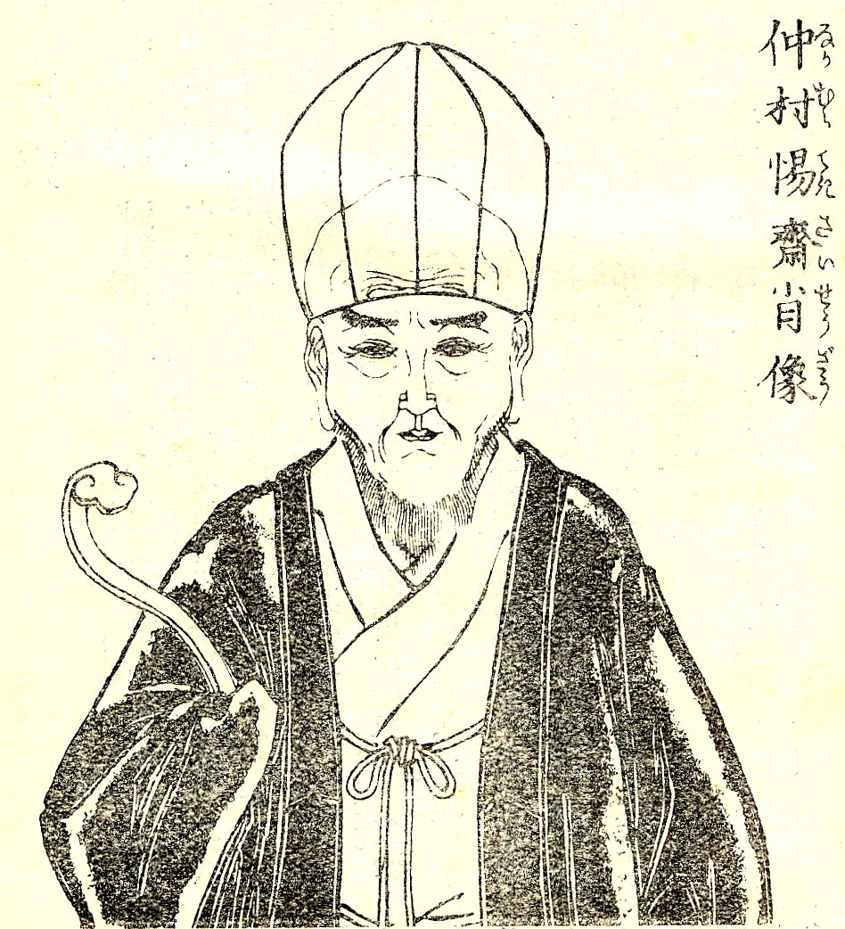 Nakamura Tekisai(仲村惕斎) was a Japanese Confucian philosopher of Edo Period.